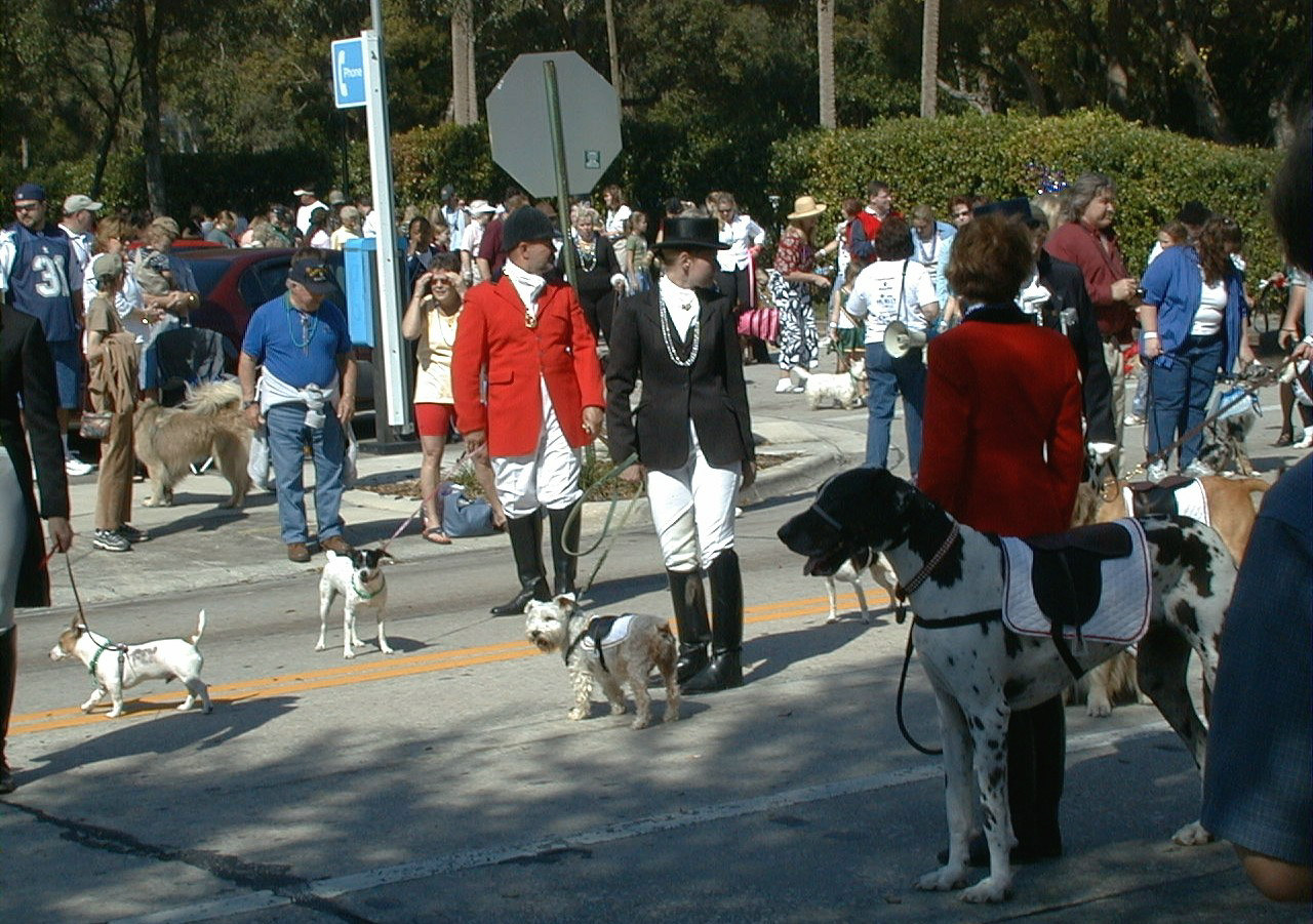 Annual Dog Parade in Deland, Florida. Taken by User:Mwanner, February 2004.